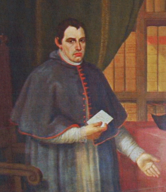 Portrait of João de Sousa, Archbishop of Lisbon (c. 1750), by Francisco Vieira Lusitano.